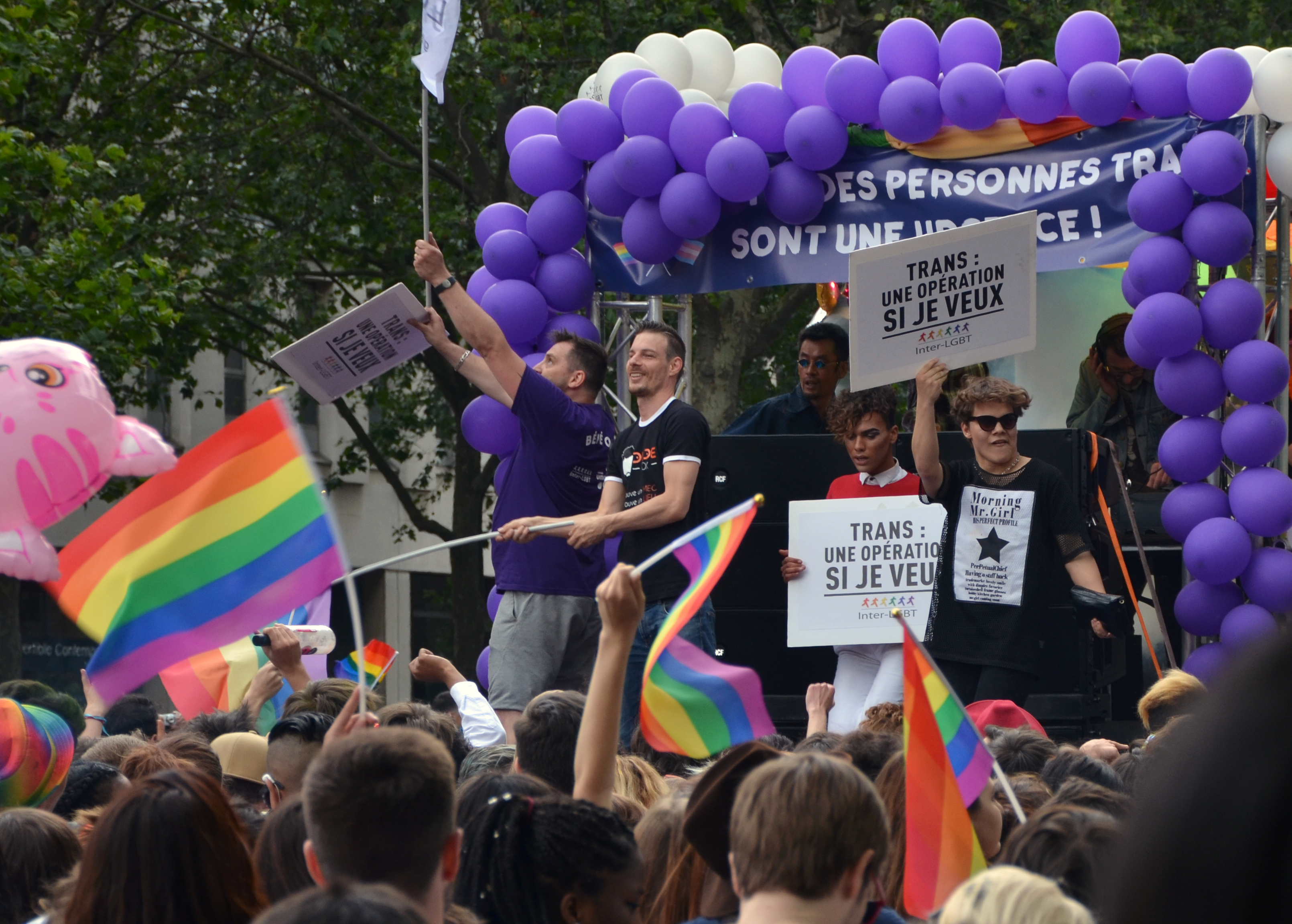 Photograph taken during the Marche des Fiertés LGBT de Paris ( Paris Gay Pride ), the 2d of July 2016.